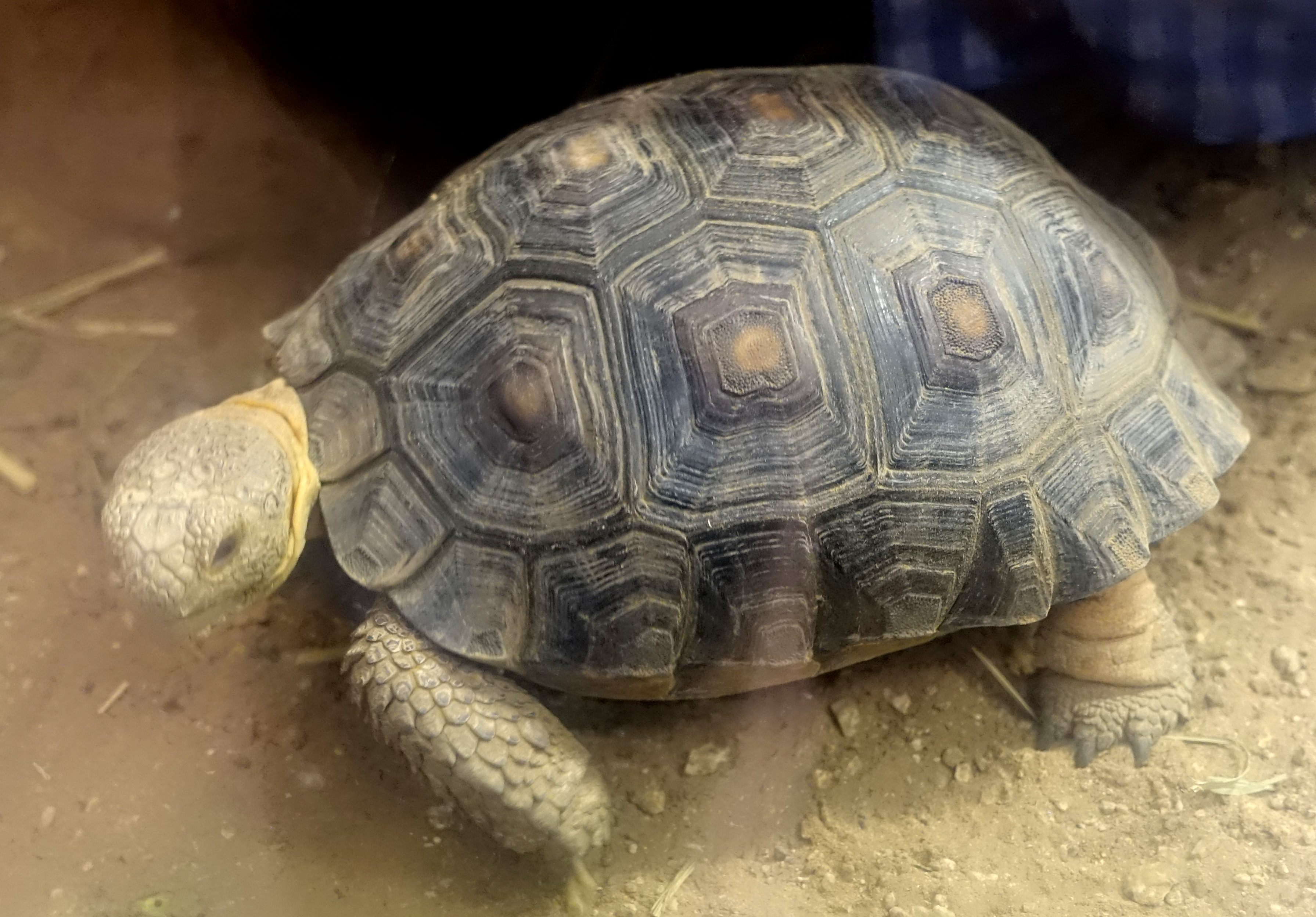 Reptile exhibit in the Arizona State University, Tempe, Arizona, USA.